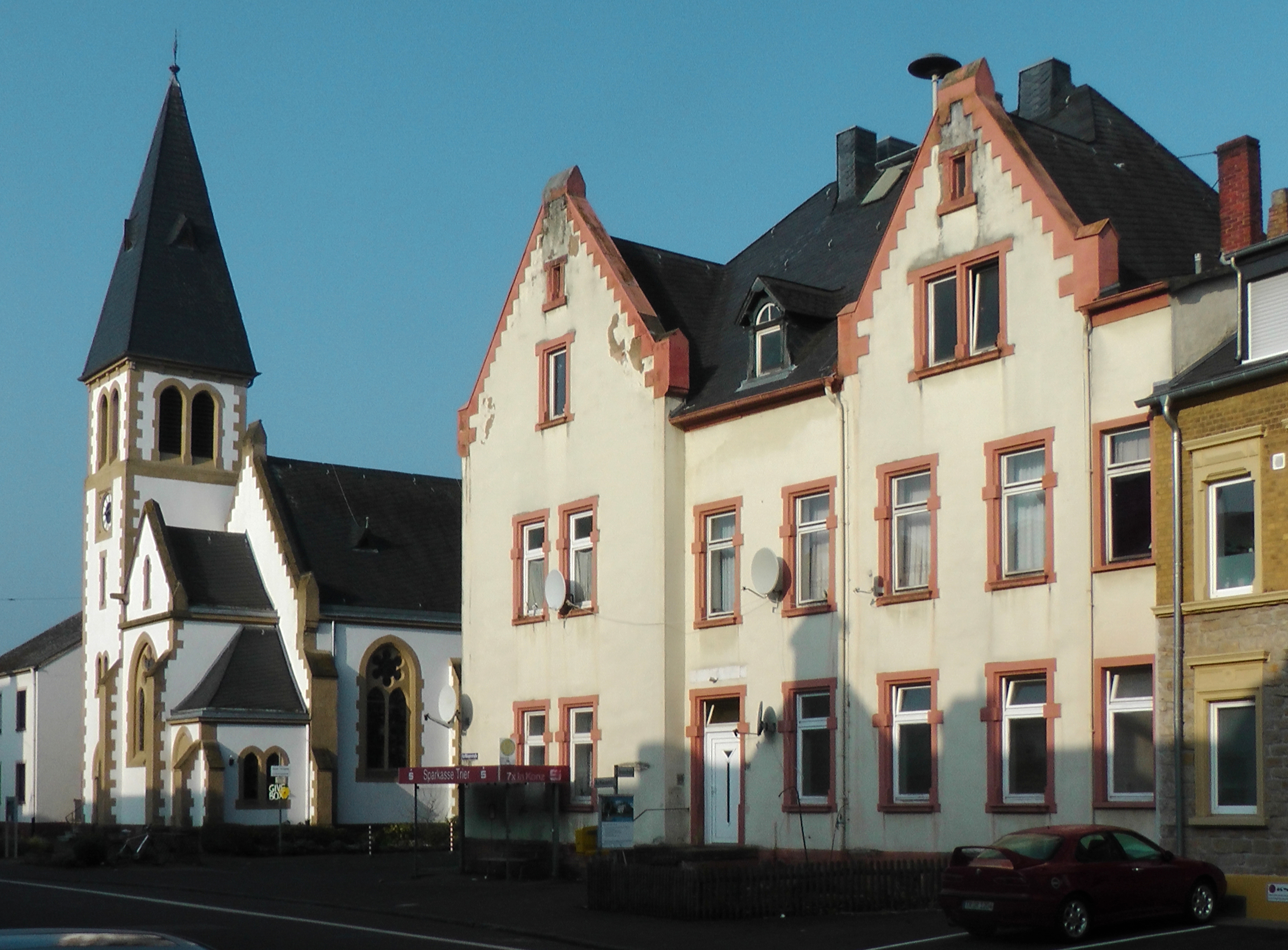 Protestant Church Konz-Karthaus, church (left) and former school (right)